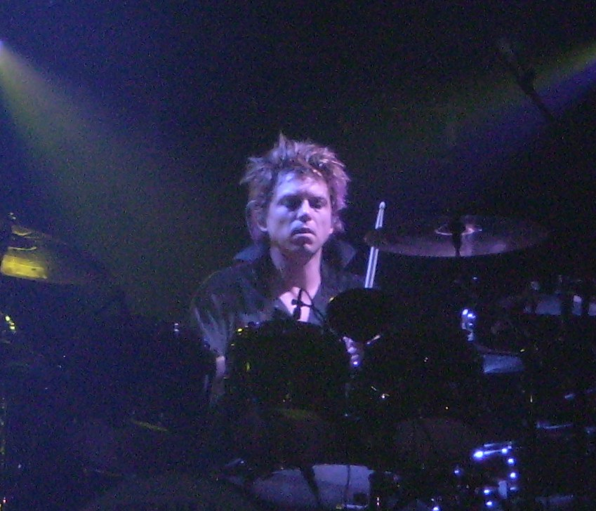 Jason Cooper of The Cure live in Rome